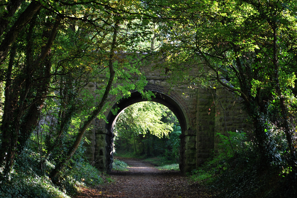 Railway Bridge facing Dyserth